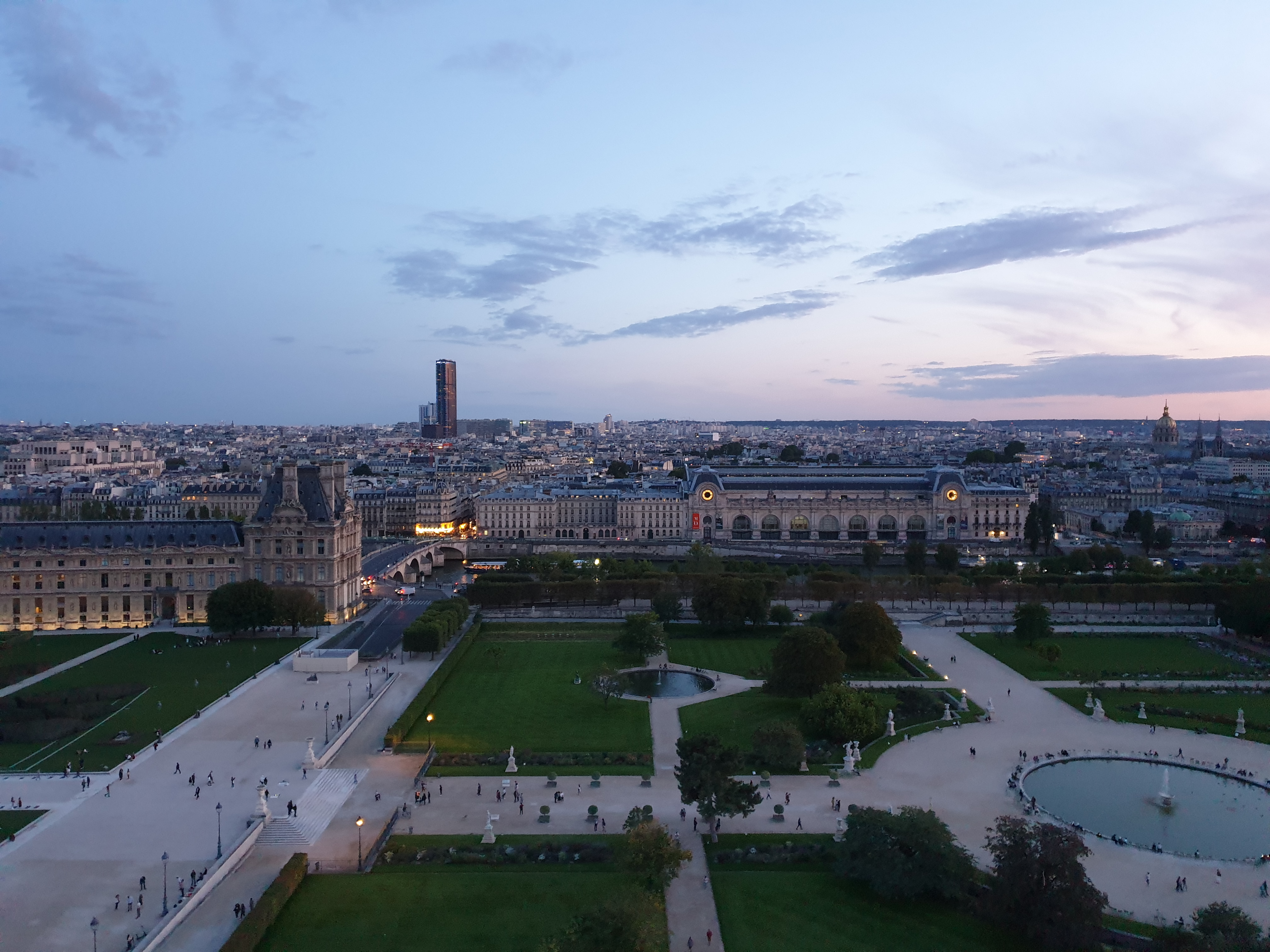 South view of Paris from the Tuileries Garden